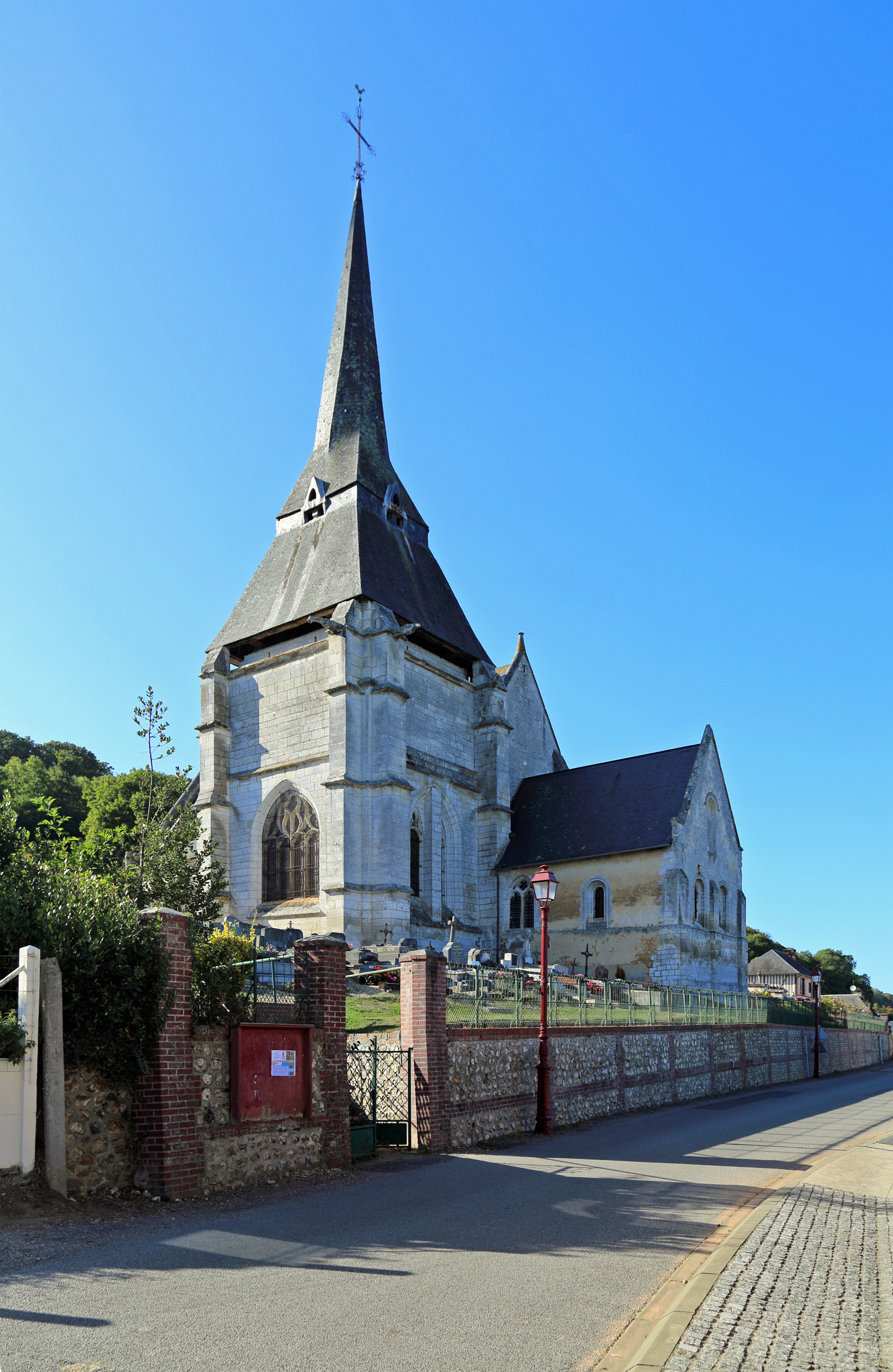 Marais-Vernier (Eure department, France): Saint Laurence church